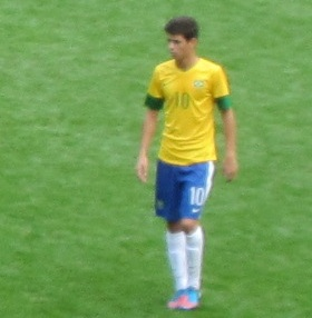 Oscar playing for Brazil at the 2012 Olympics.